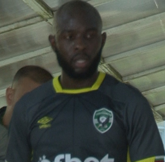 Jody Lukoki